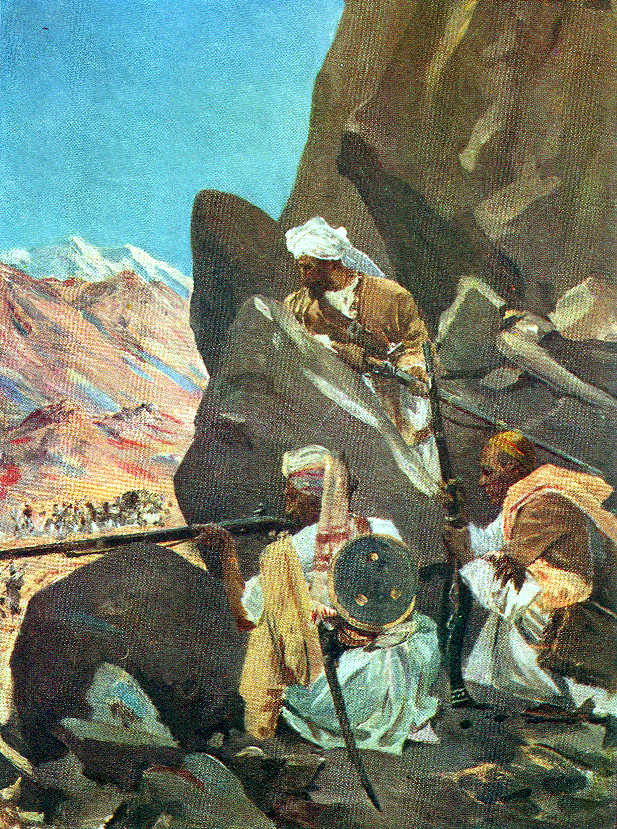 This history of India begins well before era of British colonization, during the age of the invasion of Alexander the Great, which was the west's first contact with the east. For much of the next millennium various Moslem lords rules parts of northern India. Finally, in the eighteenth century, France and Britain contested for control of the Asian trade centered in India, and for the following two centuries, India was Britain's most important colony.